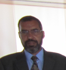 Buchraya Hamudi Bayun, Polisario Front Representative for Spain since 2010.